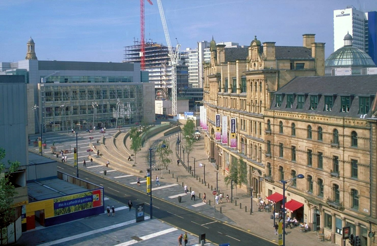 Uploaded to English Wikipedia on 20:58, 7 January 2006 User:Crispy tj